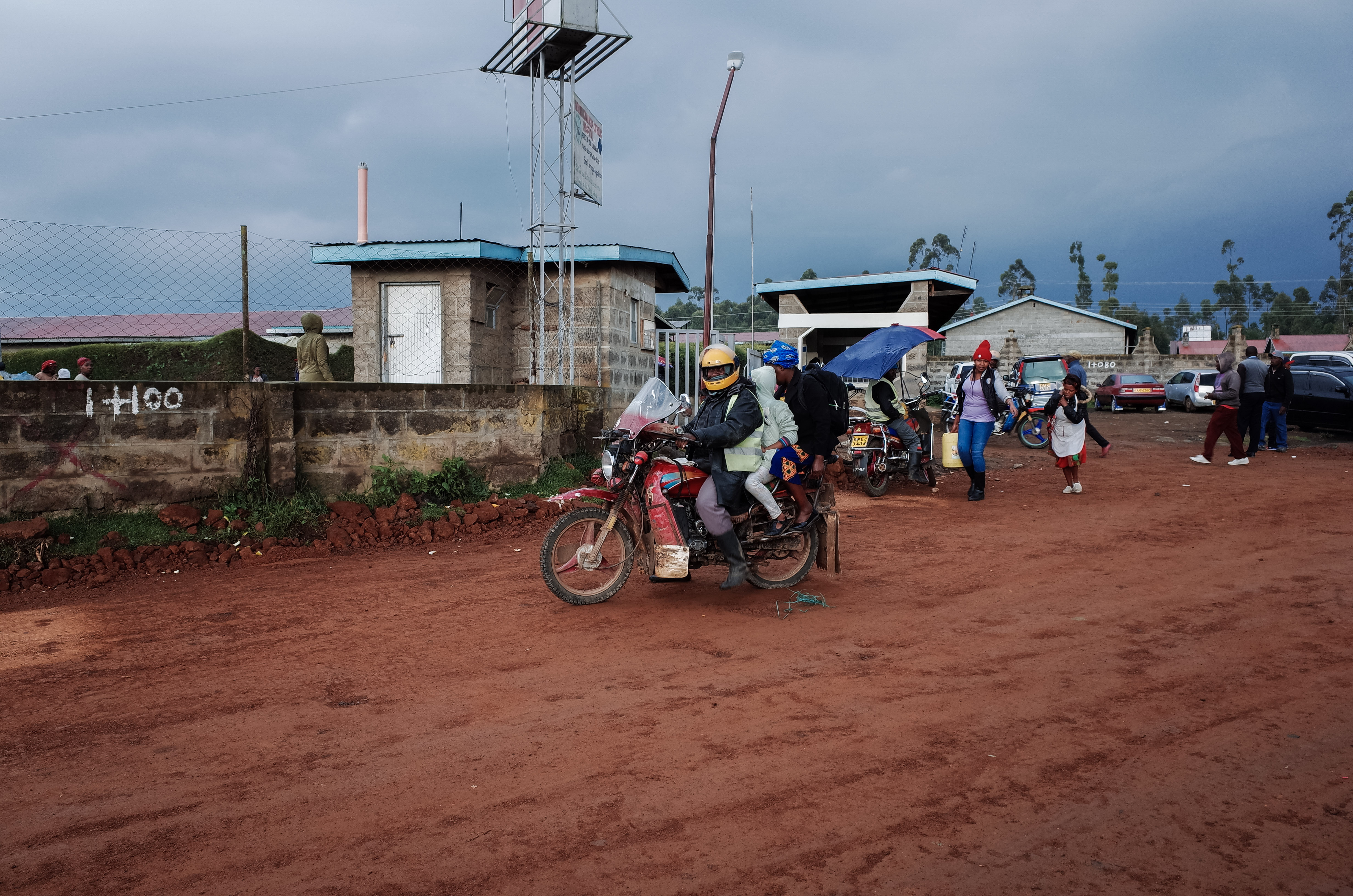 This is an image with the theme "Africa on the Move or Transport" from: Kenya